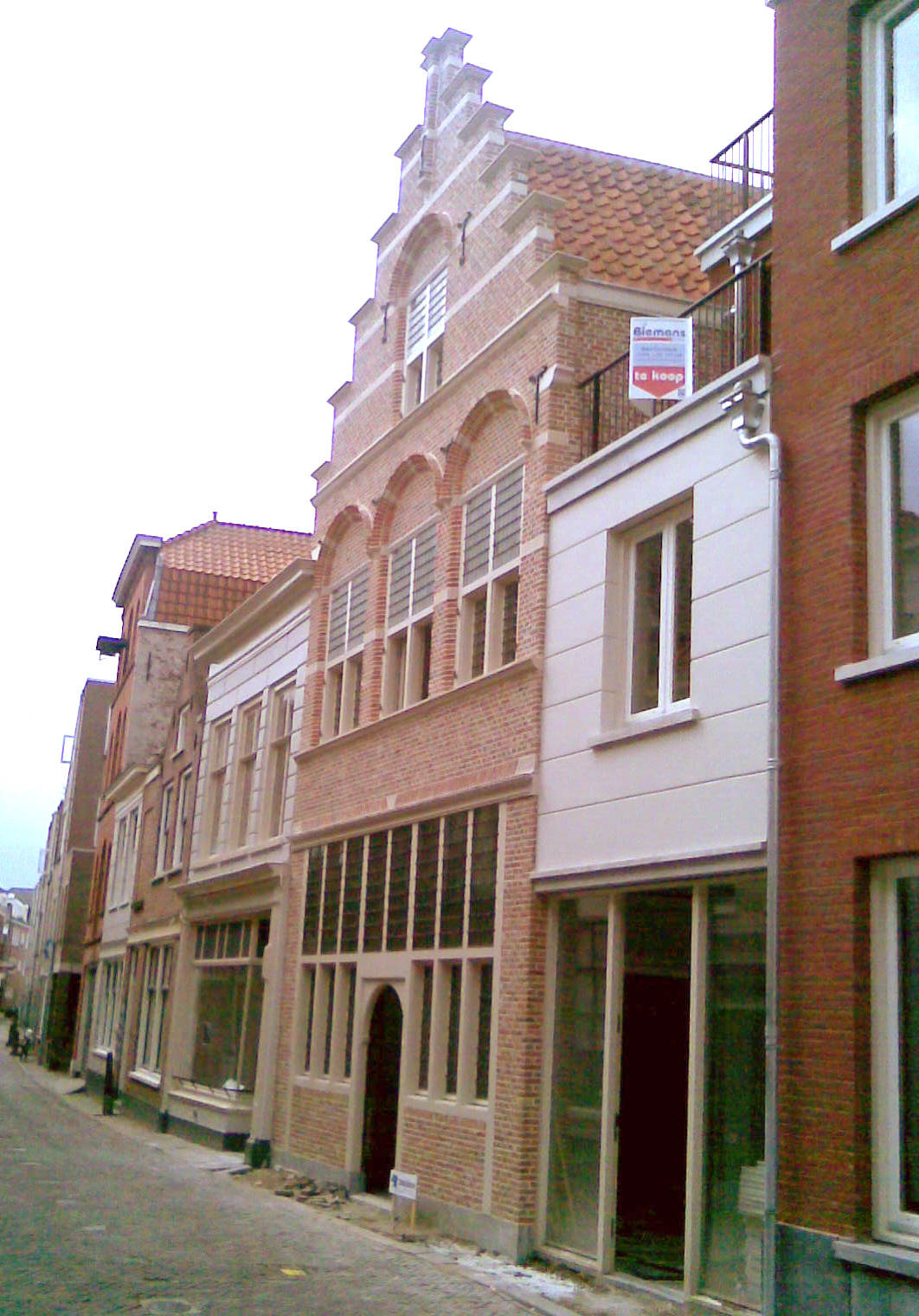 Hendrick Hamelhuis, Kortendijk, Gorinchem, Netherlands; built 2009